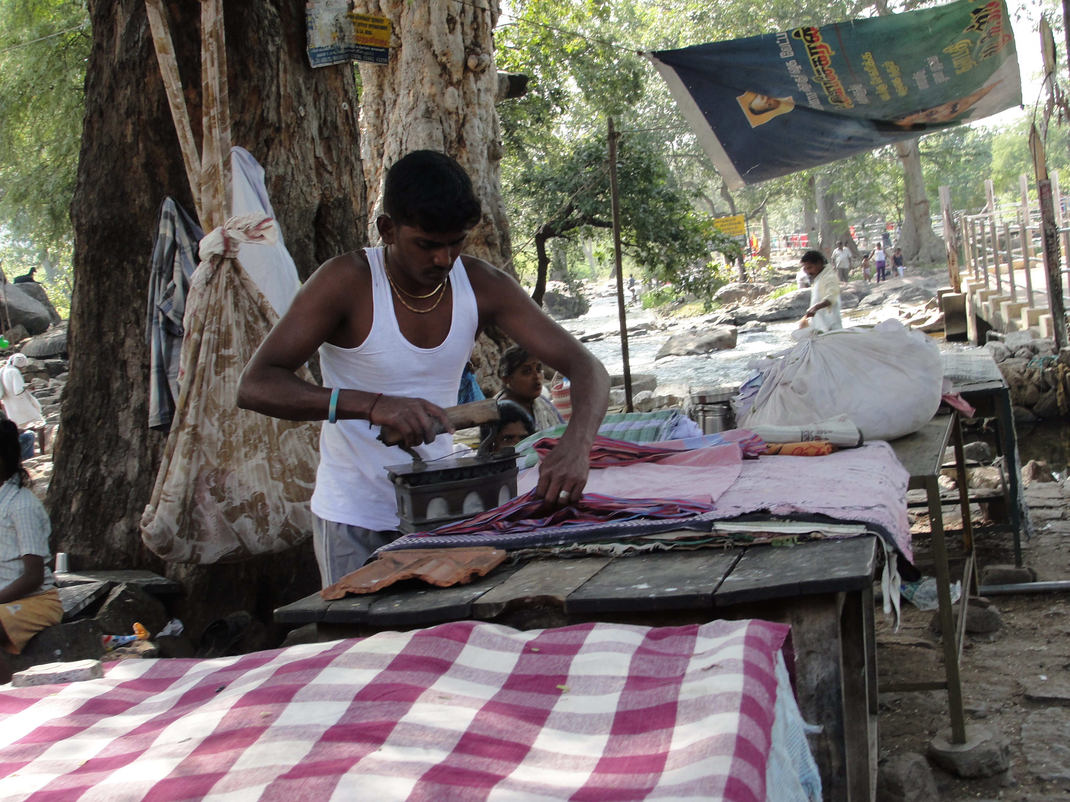 A washerman